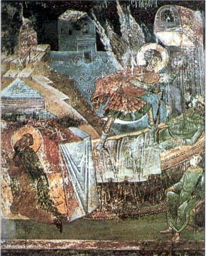 Death of the medieval ruler Strez, fresco-painting in the Hilandar monastery